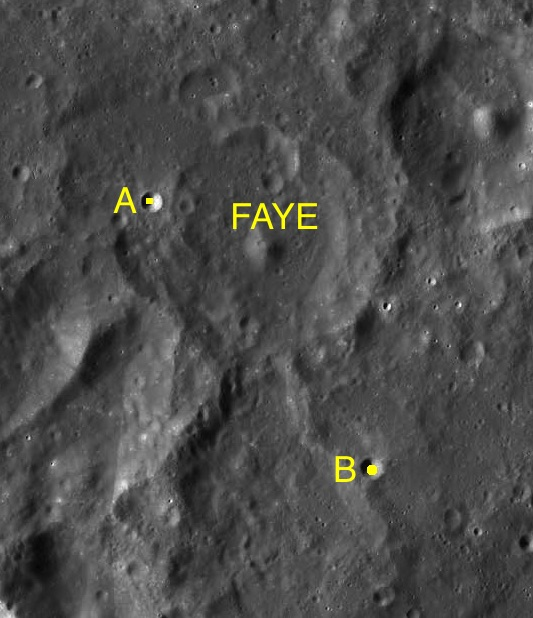 Part of the chart LAC-95 used for the presentation.